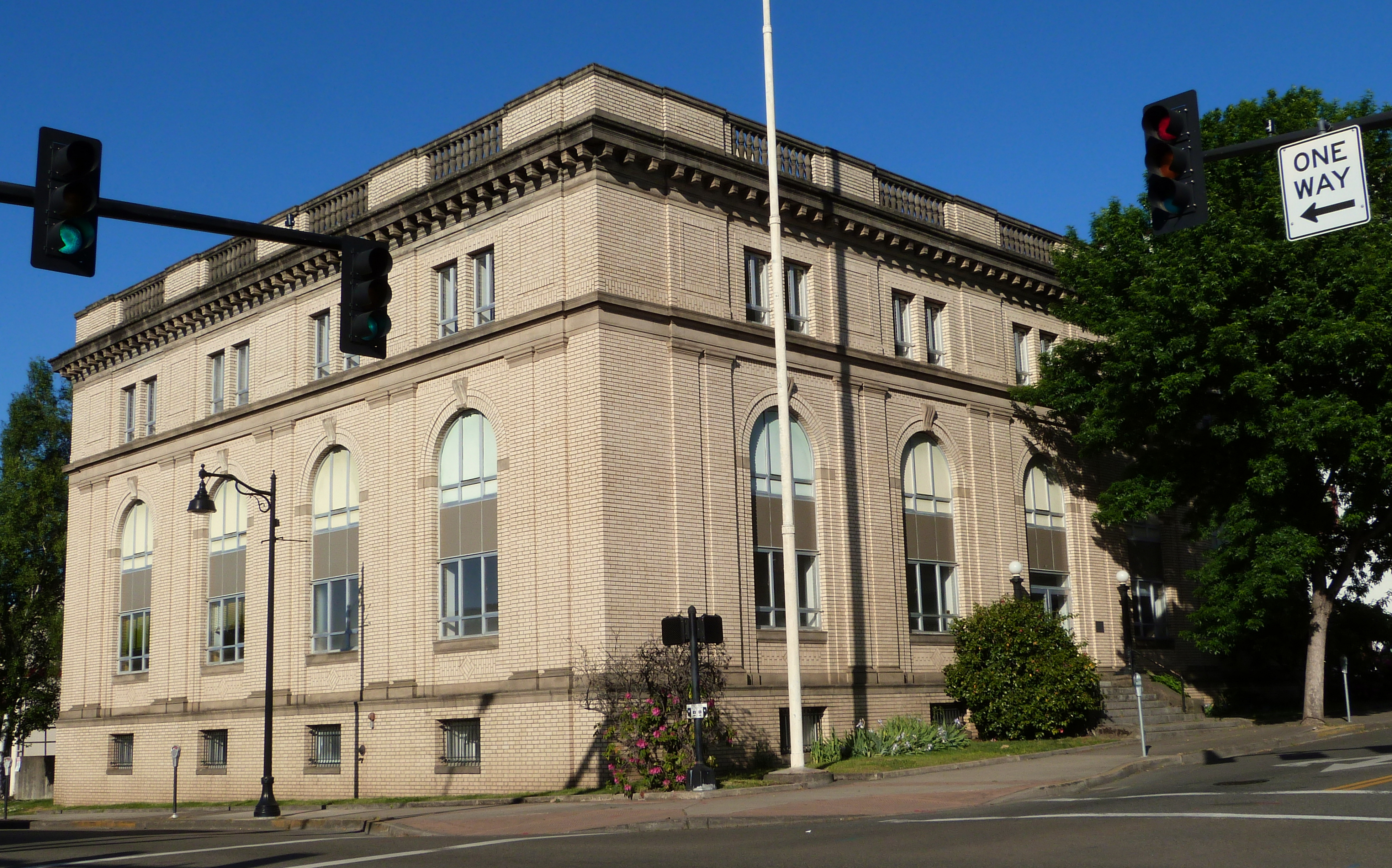 The historic U.S. Post Office (built 1916), located at 704 Southeast Cass Street in Roseburg, Oregon, United States, is listed on the US National Register of Historic Places. It is additionally listed as a contributing resource within the Roseburg Downtown Historic District.